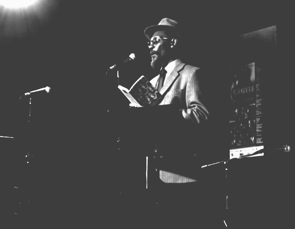 Linton Kwesi Johnson on stage reading from a book